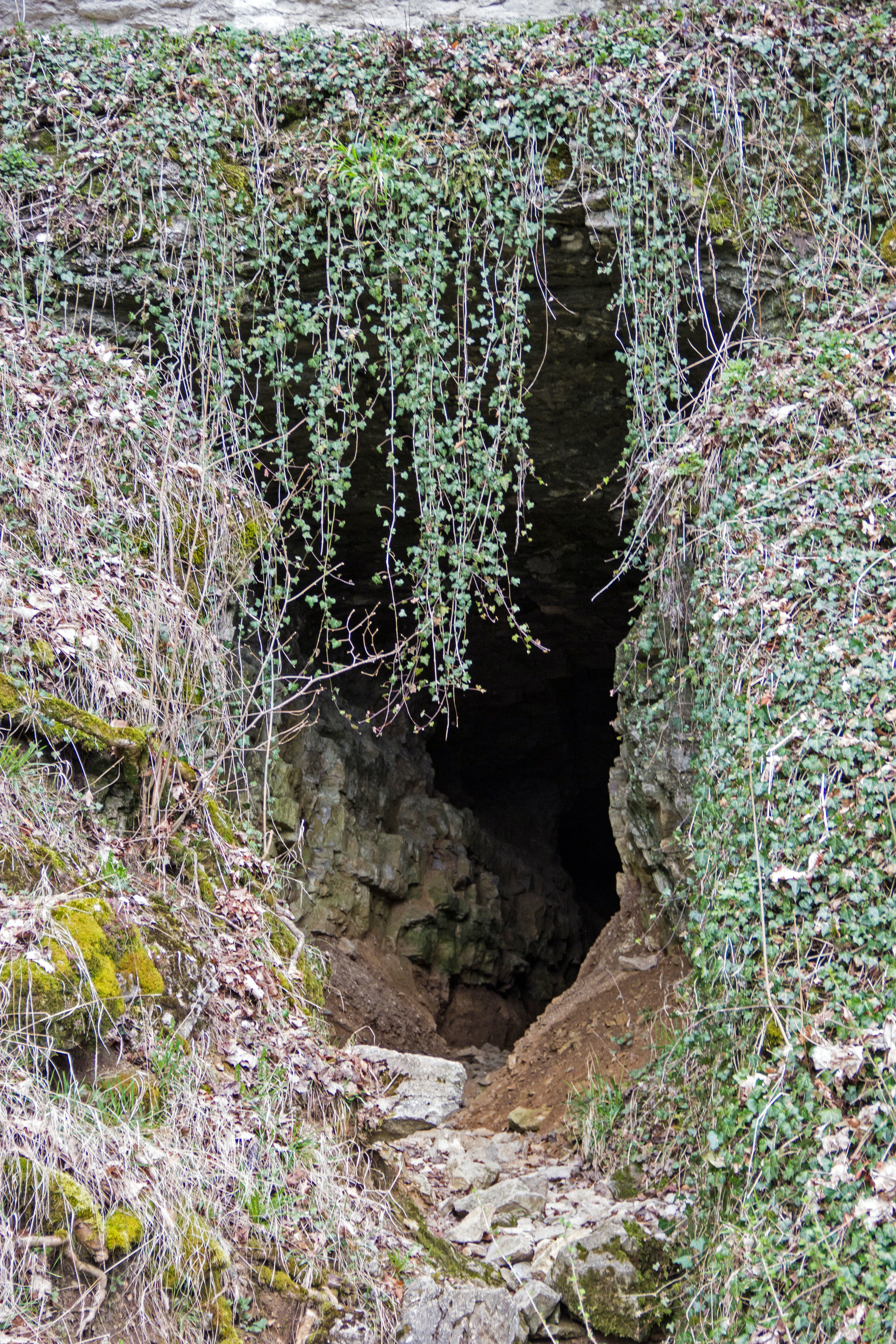 Schneiderloch, Streitberg